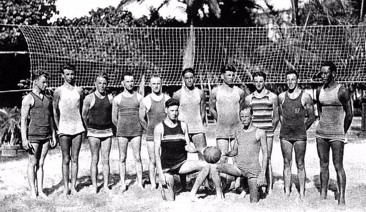 Beach volleyball players at the Outrigger Canoe Club on Waikiki Beach in Honolulu, Hawai'i. Duke Kahanamoku is at far right.